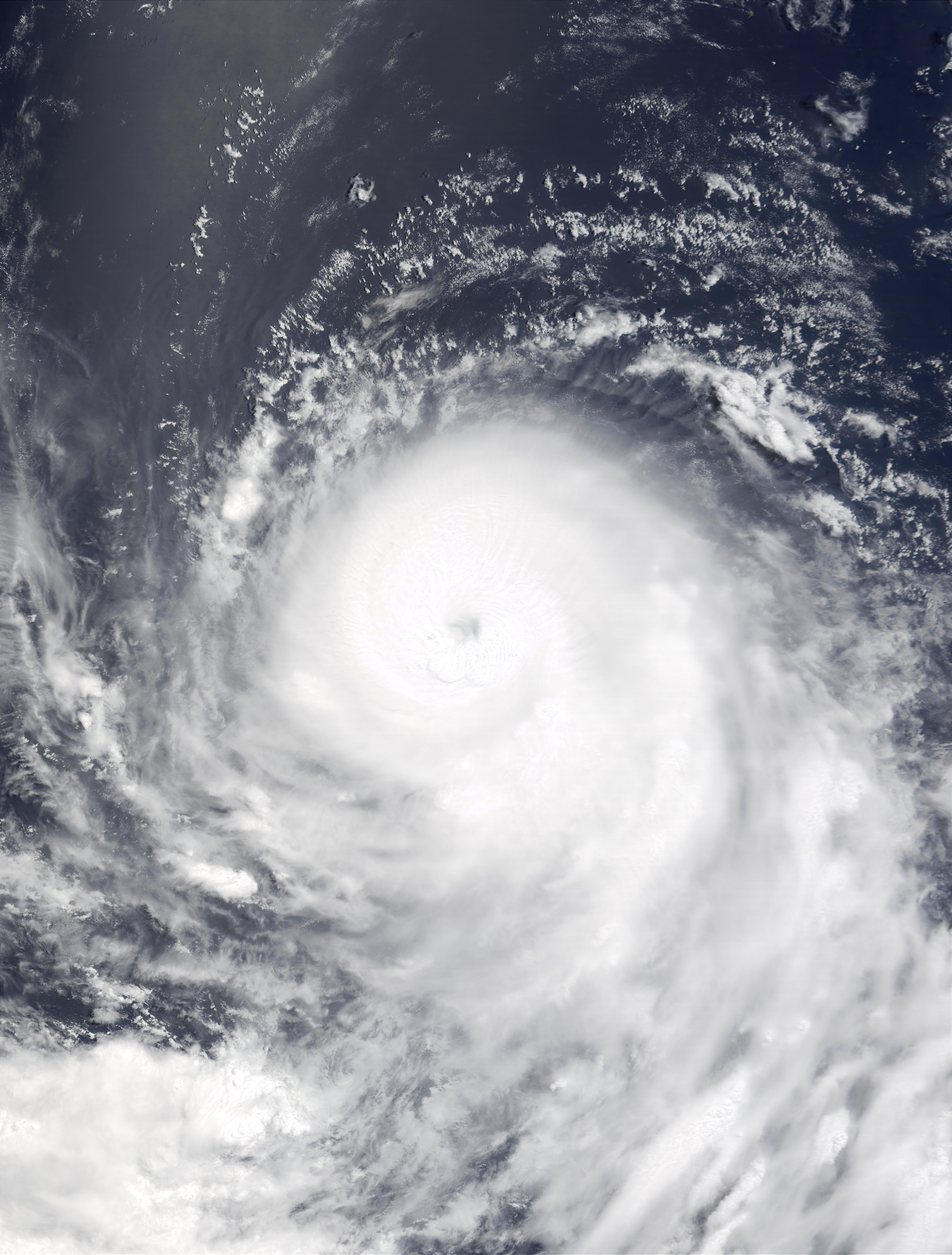 This true-color MODIS image from July 7, 2002, shows Typhoon Chataan south of Japan. Chataan brought heavy rains and flooding to the region, and was responsible for dozens of deaths in Indonesia and the Phillipines.